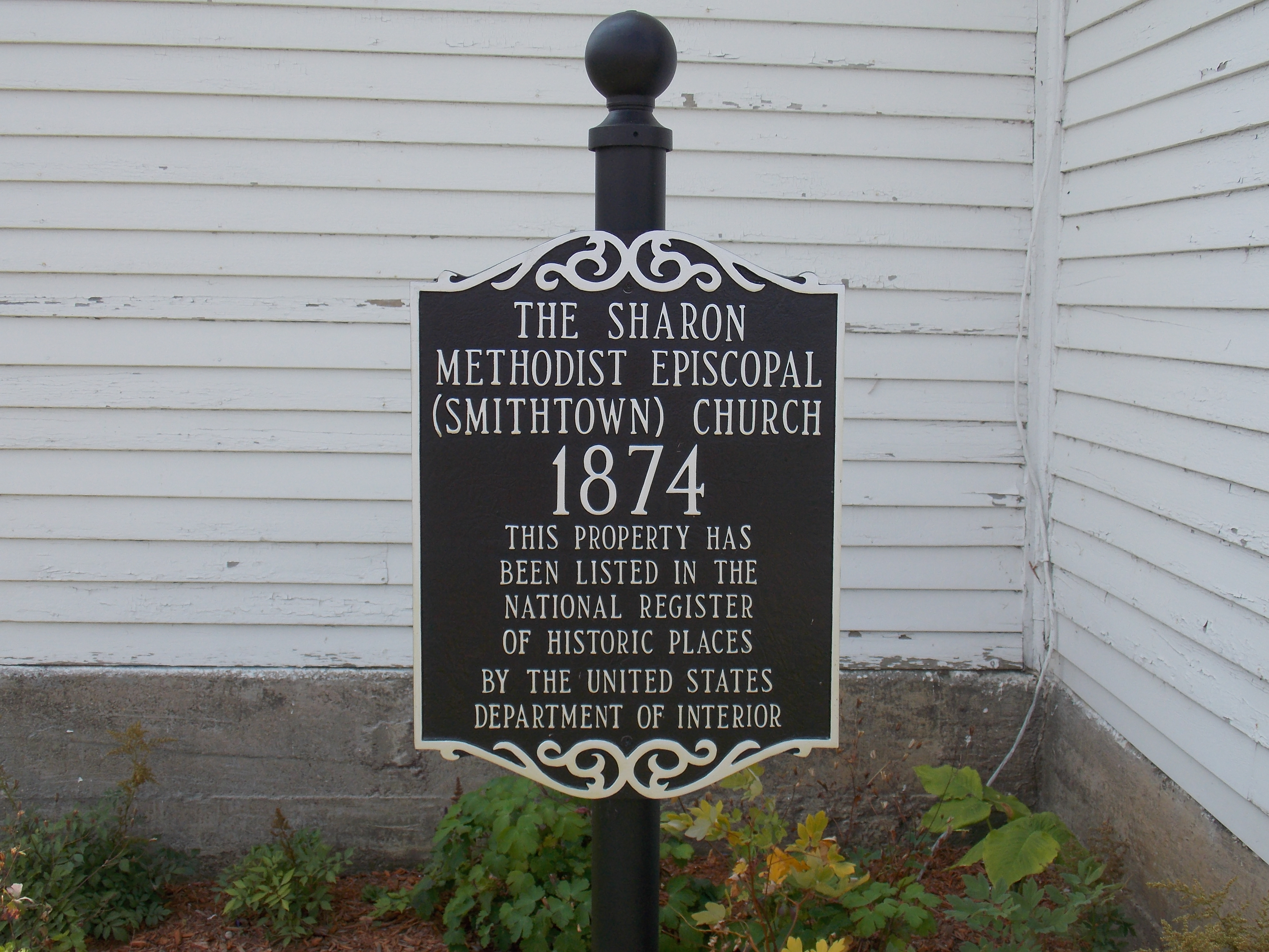 Sharon Methodist Episcopal Church (Smithtown Church) near Lost Nation, Iowa is listed on the National Register of Historic Places.